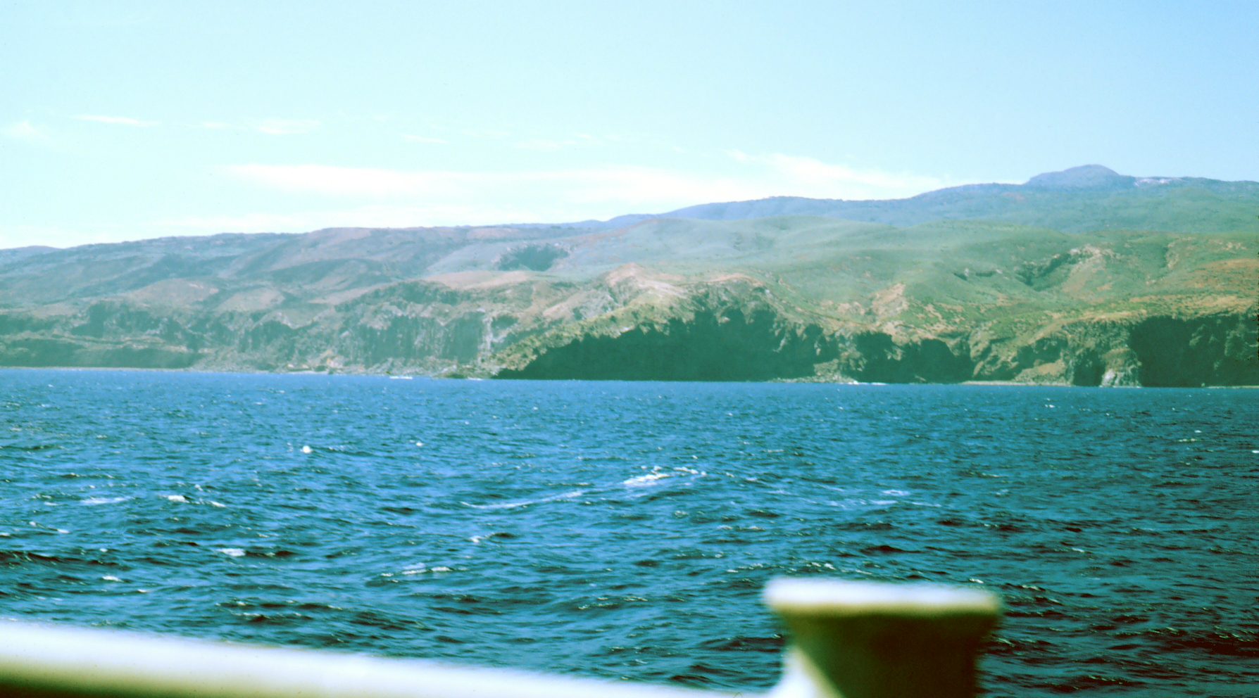 Coastline of Socorro Island, Mexico